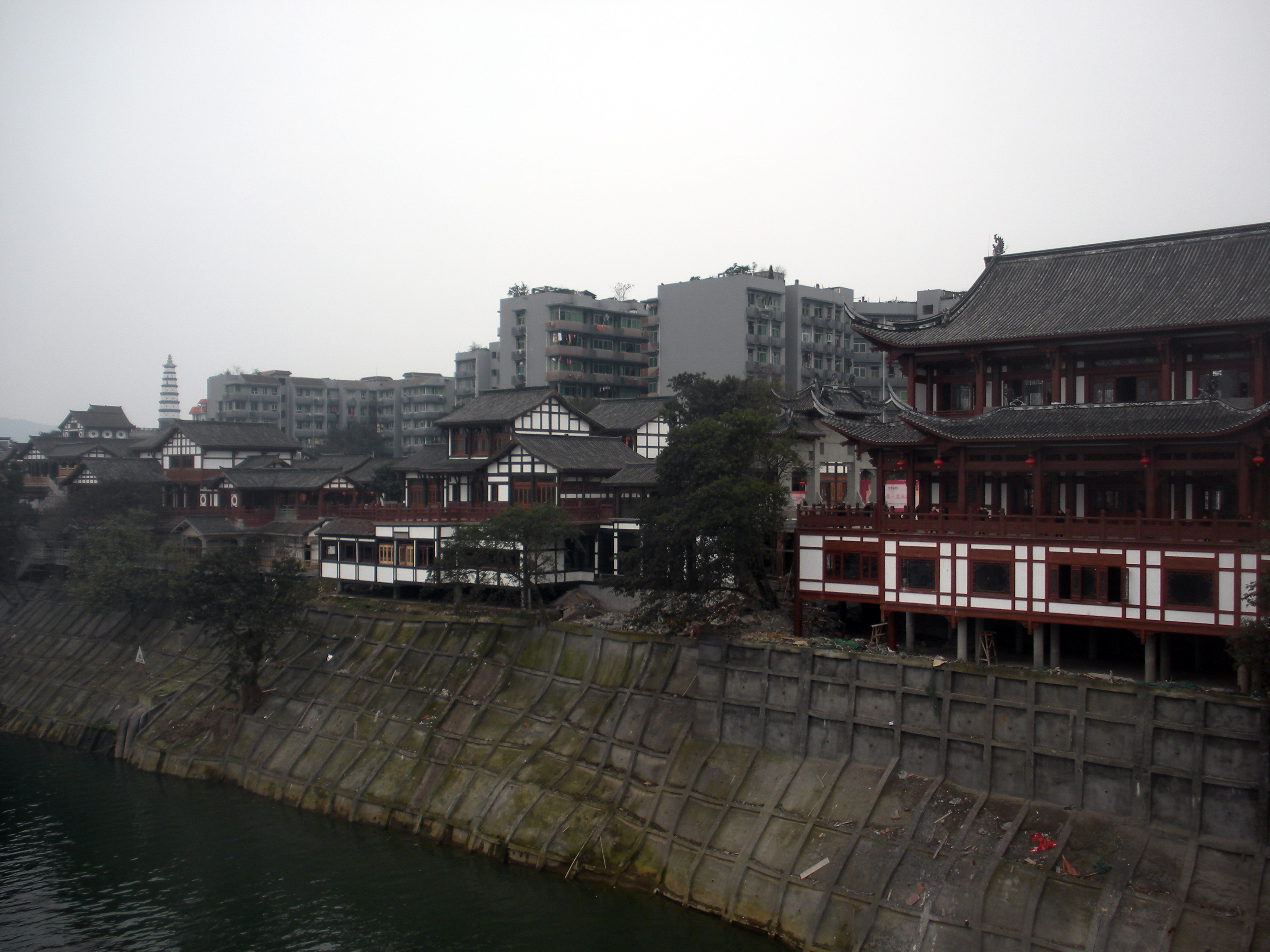 The Chinese tranditional style houses along the Fu river bank at Nanjinjie,Hechuan,Chongqing.The photo has been taken by Prof.Chen Hualin.